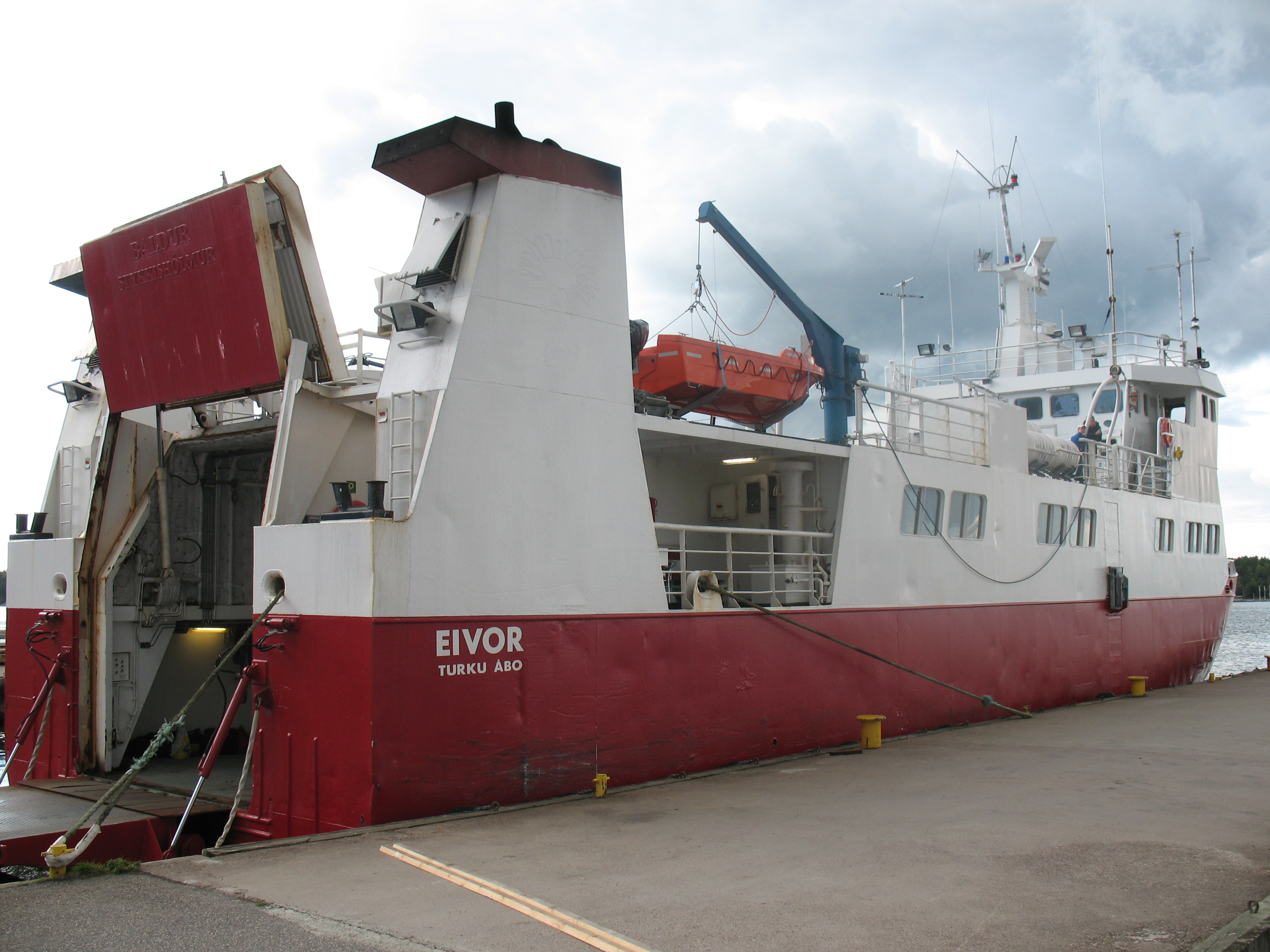 M/S Eivor unloading at Pärnäs harbor, Nagu, Finland